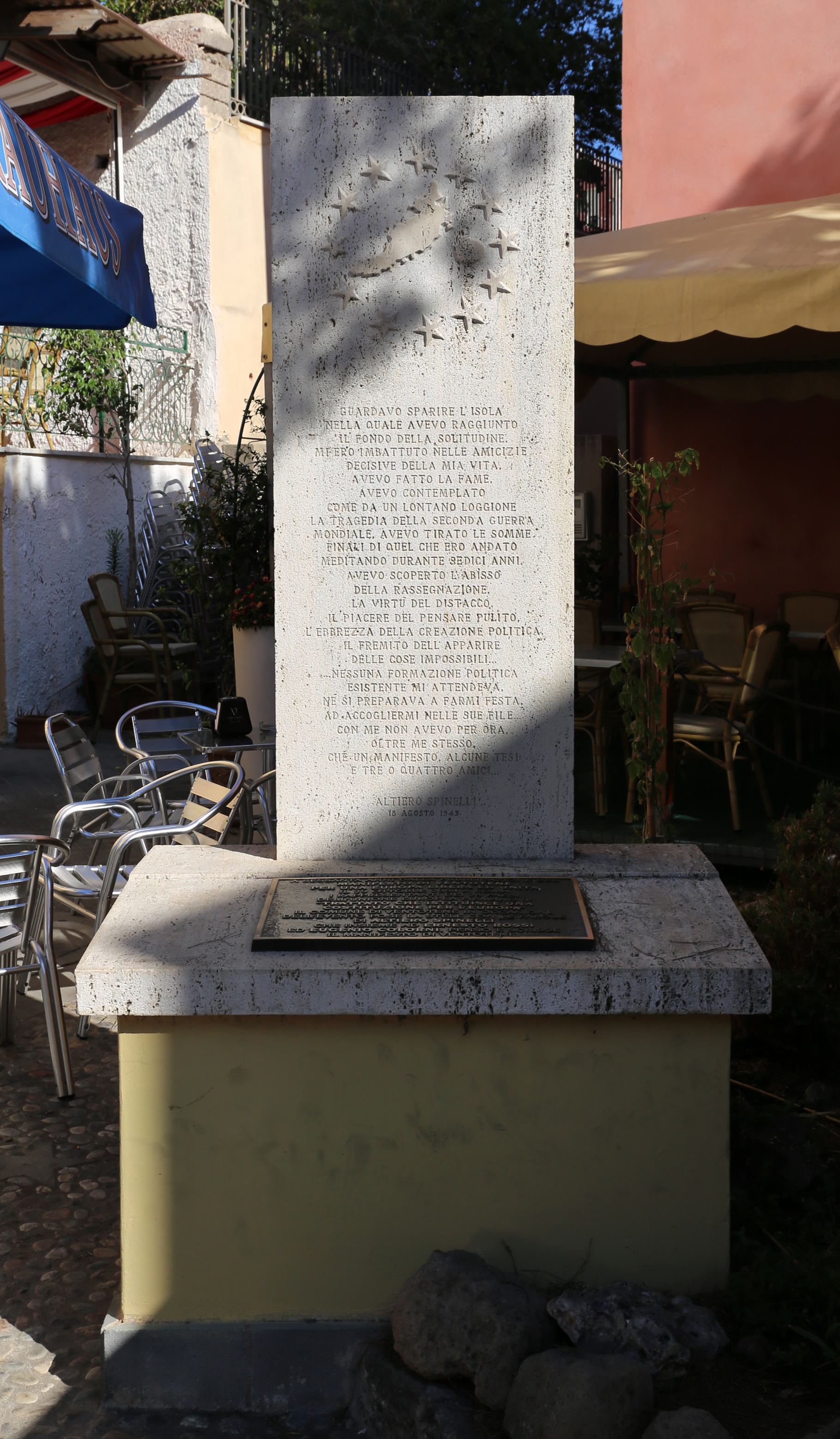 Ventotene